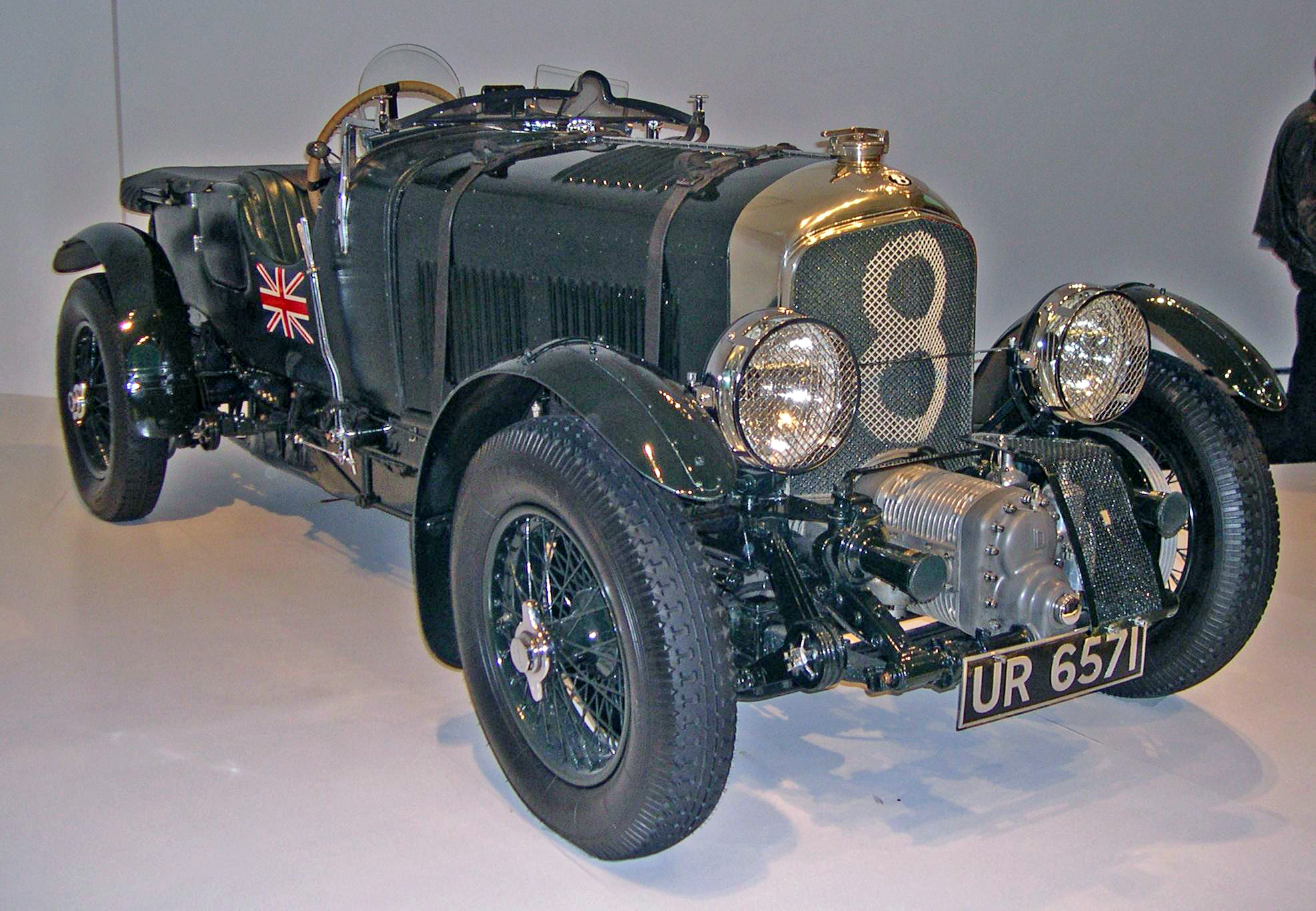 1929 "Blower" Bentley from the Ralph Lauren collection on display at the Boston Museum of Fine Arts. delivered 1930 with 4-seater Vanden Plas body Chassis HR3976 Engine HR3976 Reg UR 6571 "No 4 Birkin Blower" "This car was purchased by Dorothy Paget new for Tim Birkin to race. Supercharger was added" "One of the three famous road equipped Birkin/Paget cars and the last to be added to the team for the 1930 season" Source